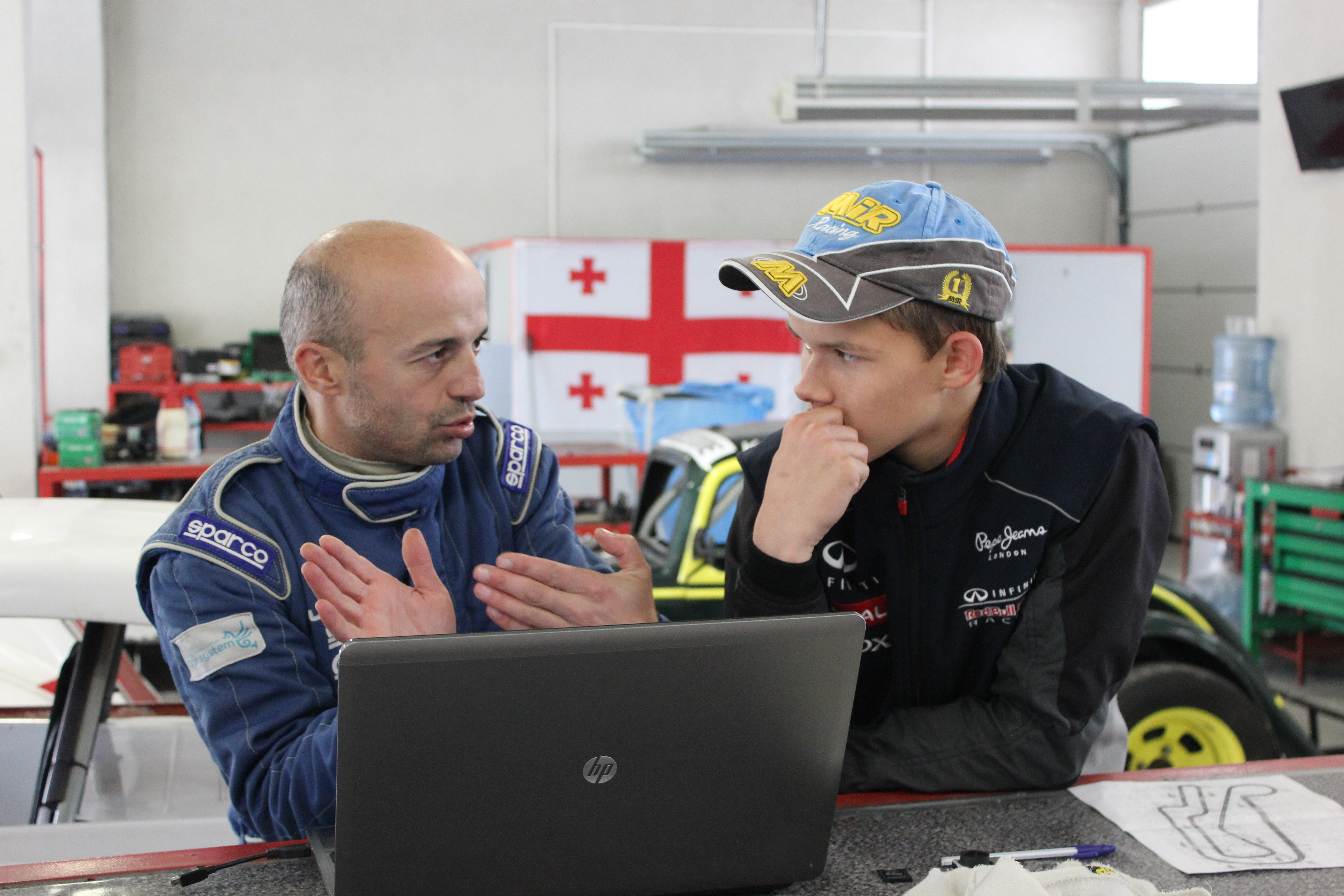 2014th Formula Alfa champion Mevlud Meladze working with amateur driver Roman Lebedev